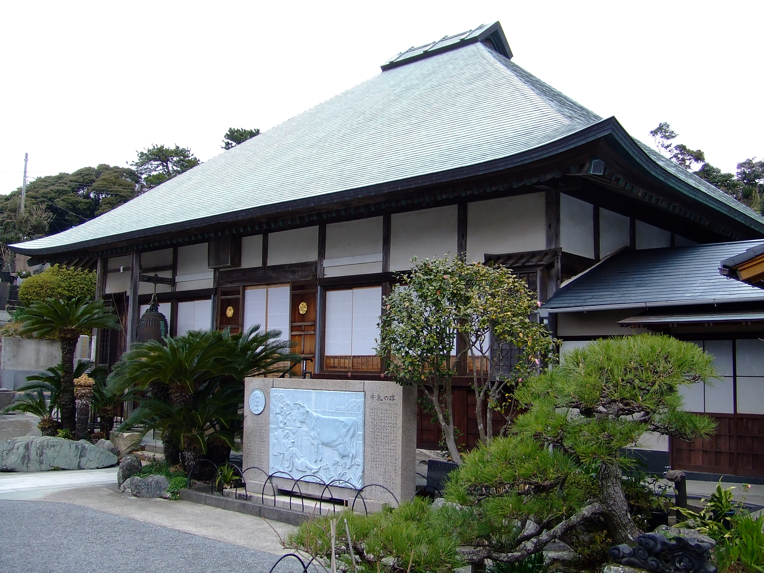 The Gyokusenji temple in Shimoda, Shizuoka, Japan. The site of the first American consule in Japan. I took this photo with a digital camera on 24th February 2007.